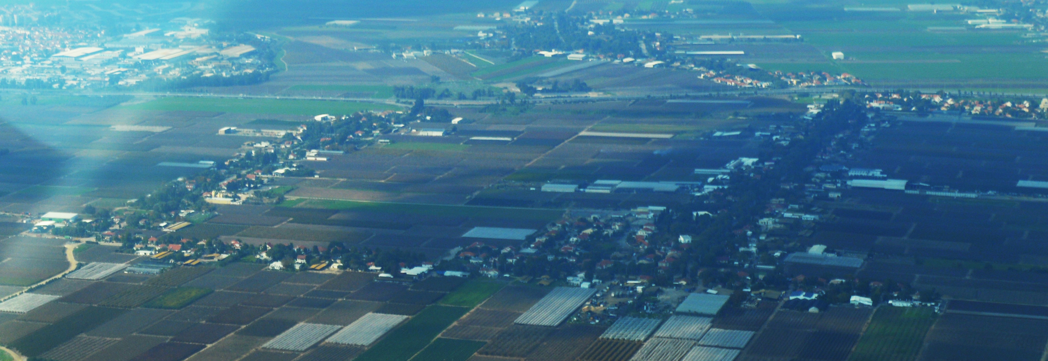 Arugot Aerial View